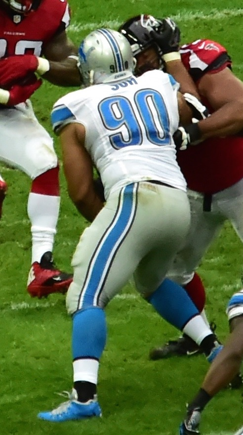 Detroit Lions vs Atlanta Falcons - Wembley 2014